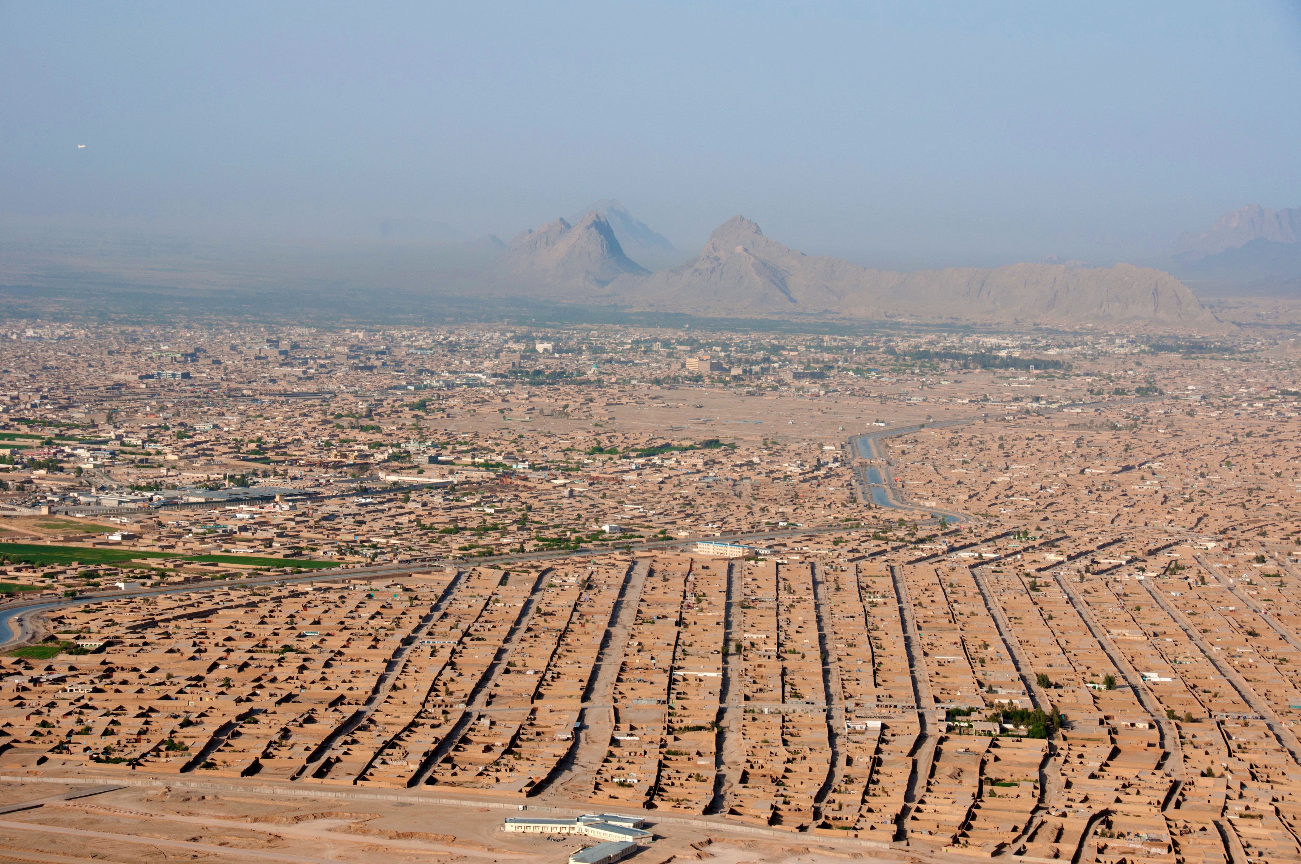 Traveling by helicopter enables us to see the beauty of Kandahar province from the air. (USACE Photo by Karla Marshall)